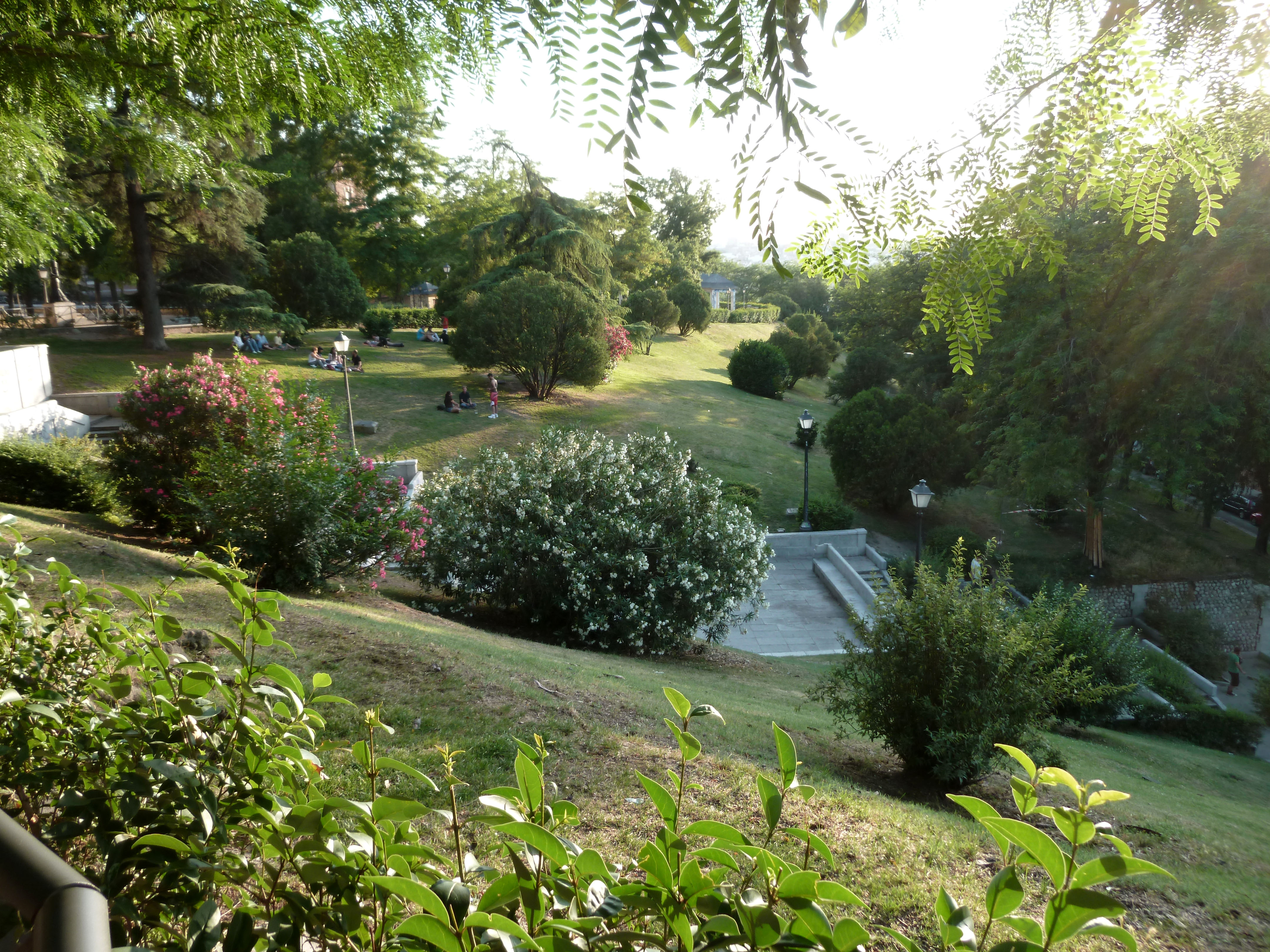 View from Jardines de Las Vistillas (a park) in Madrid (Spain).